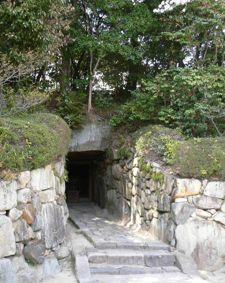 Hakuchouzuka Kohun (Barrow) at Hyōgo Prefecture in Japan.